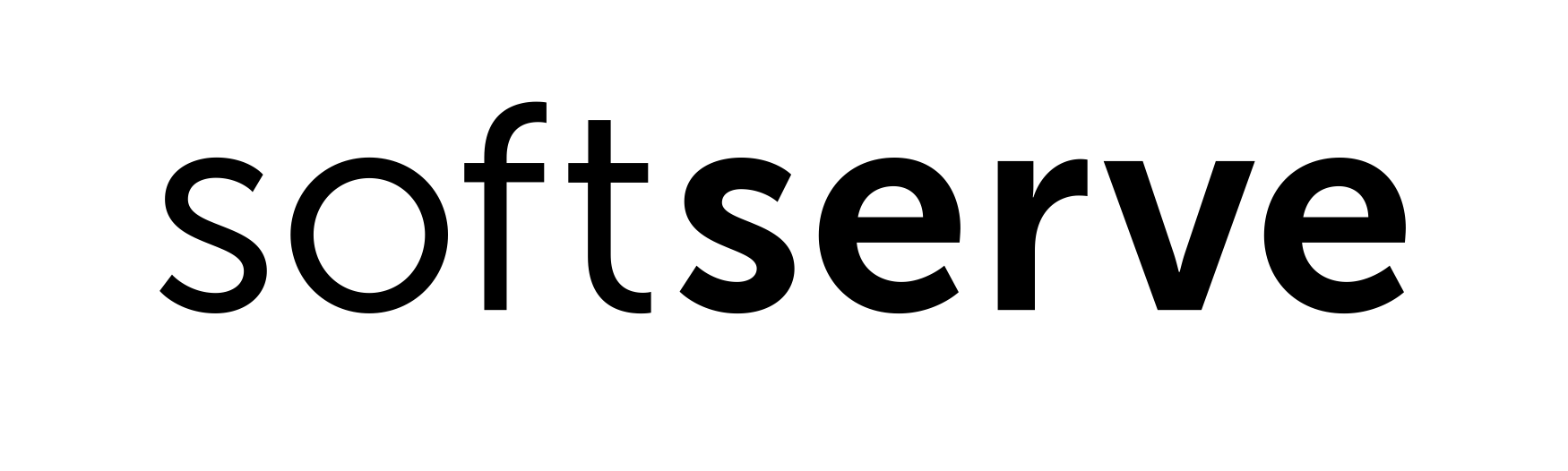 SoftServe logo